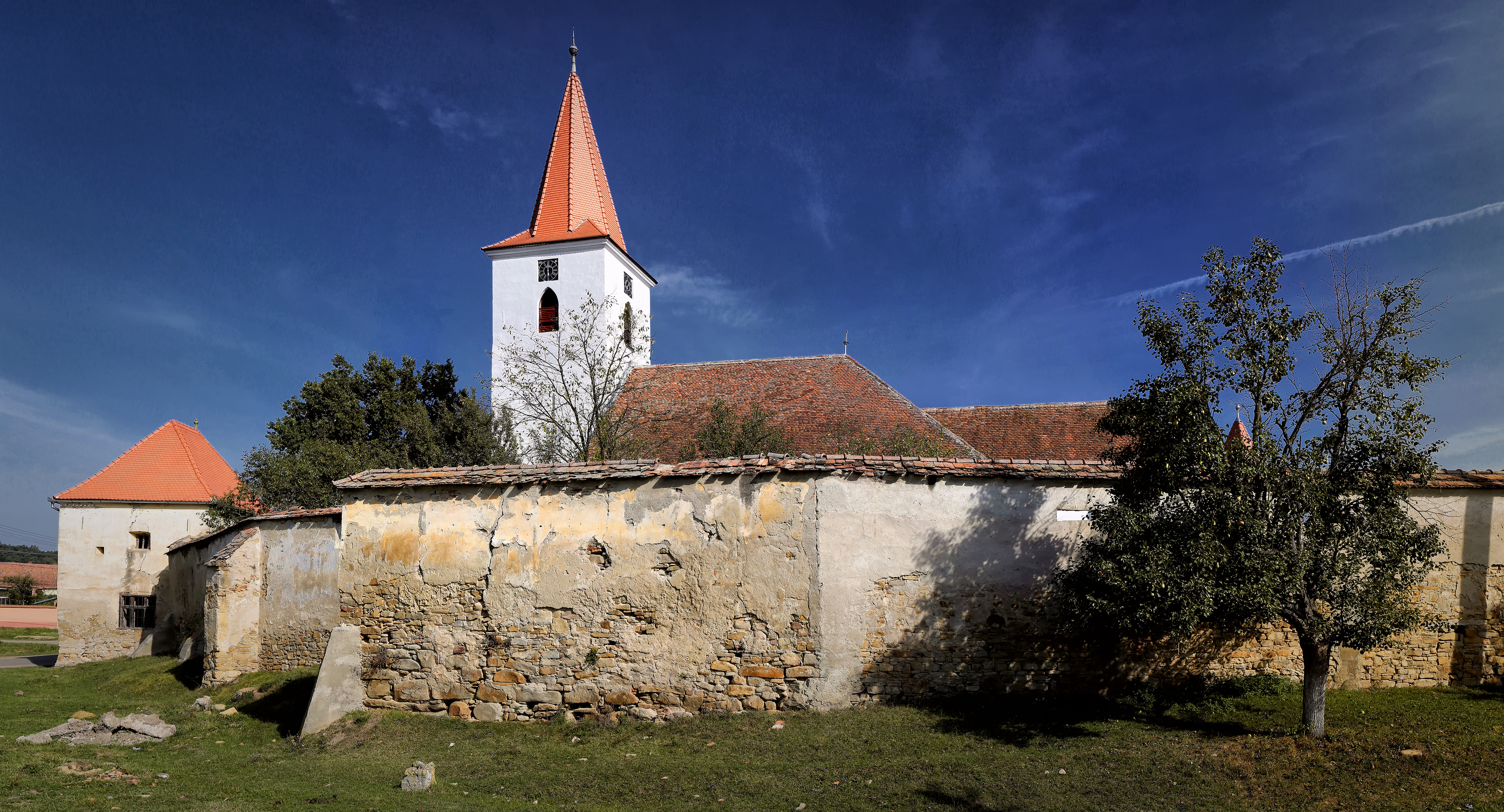 Ensemble of the fortified church of Bruiu in the Sibiu county